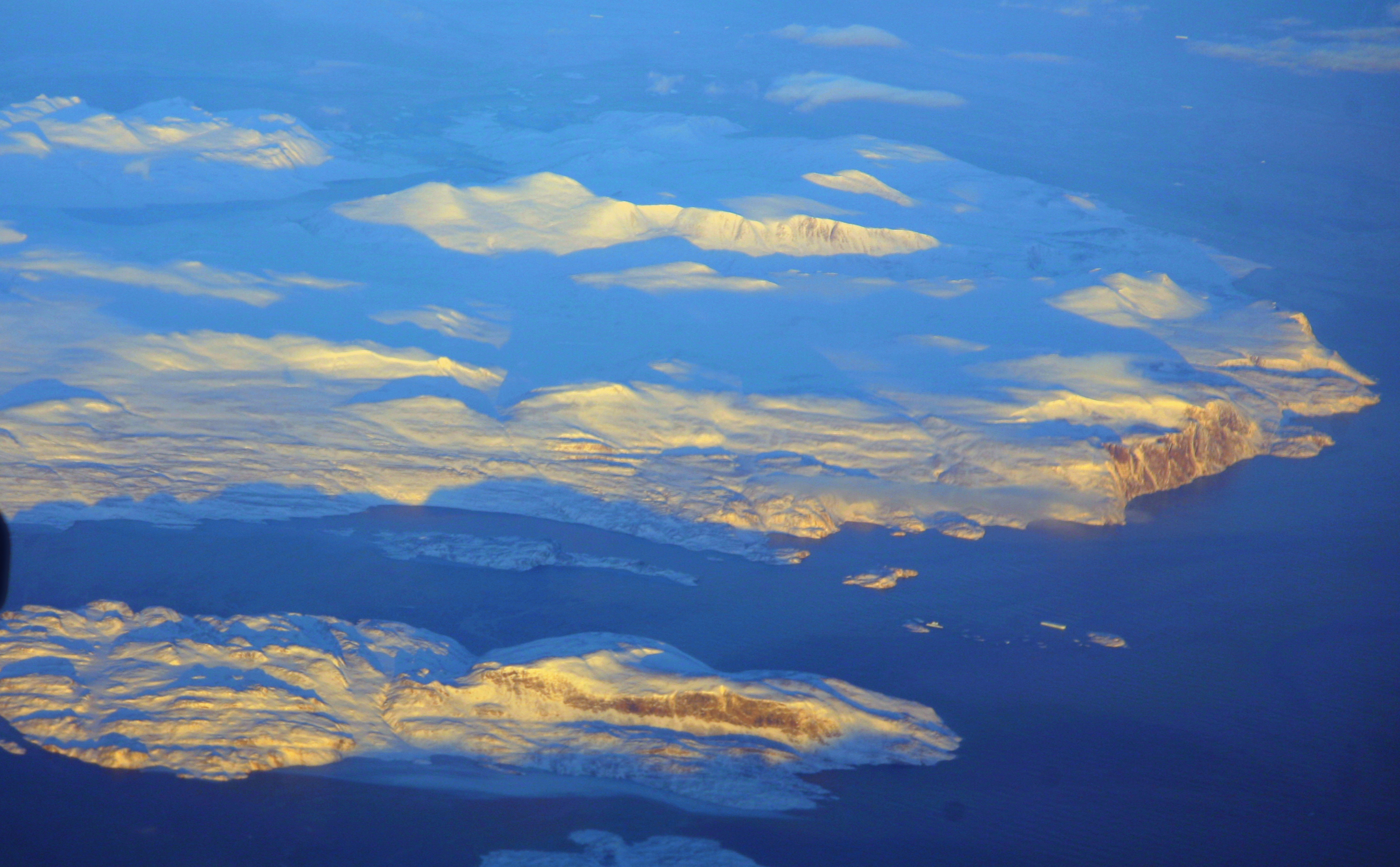 Flying across the Cumberland Peninsula of Baffin Island.